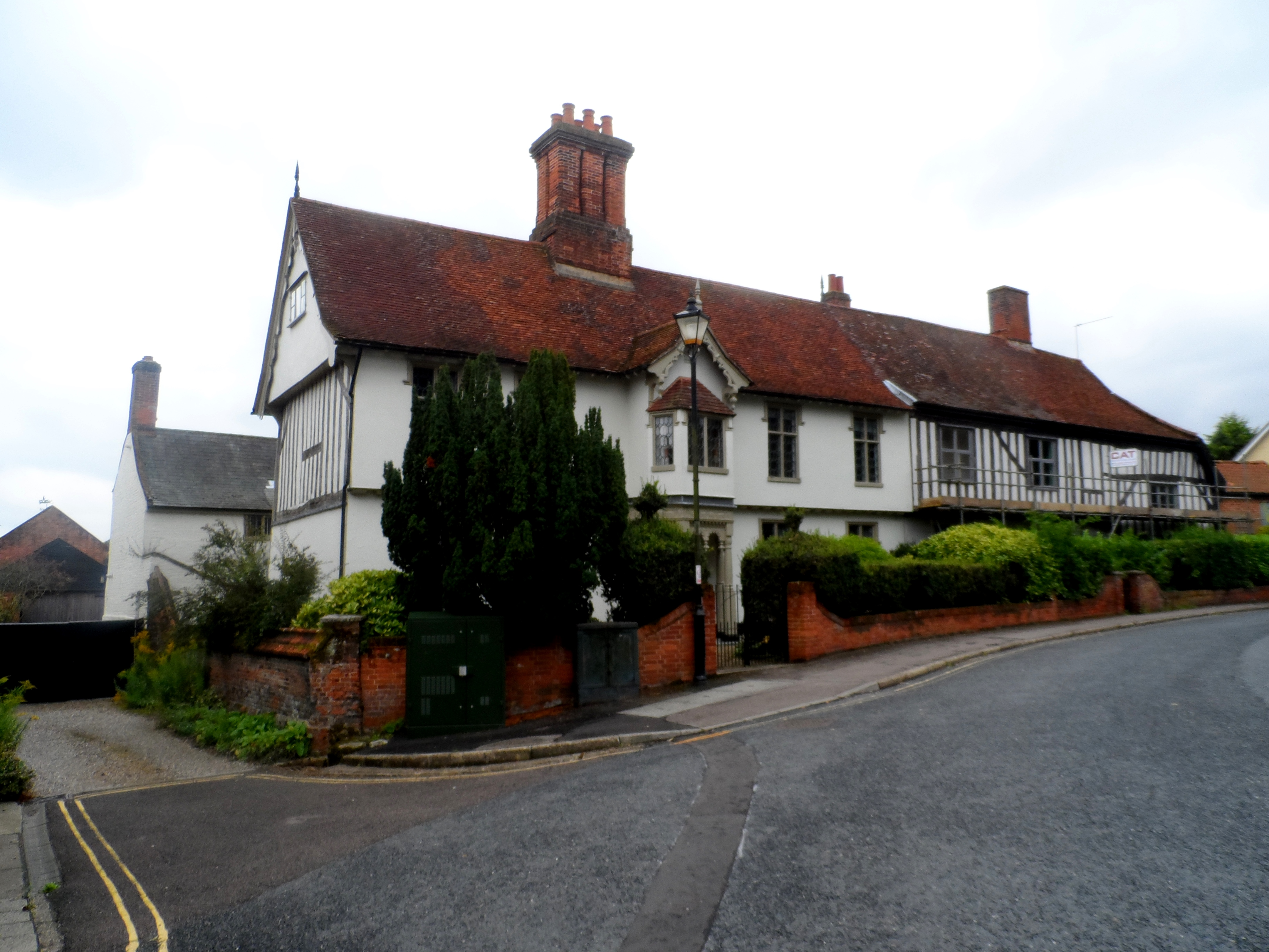 The Gothic House, London Road, Halesworth